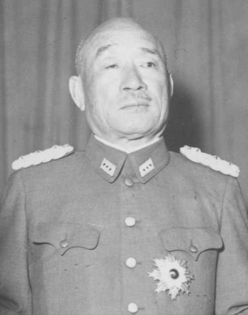 Hajime Sugiyama